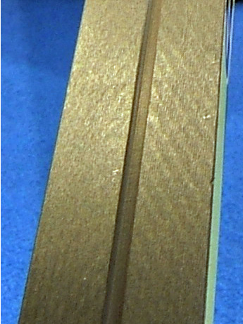 Grinding of ski for skating in cross country skiing.